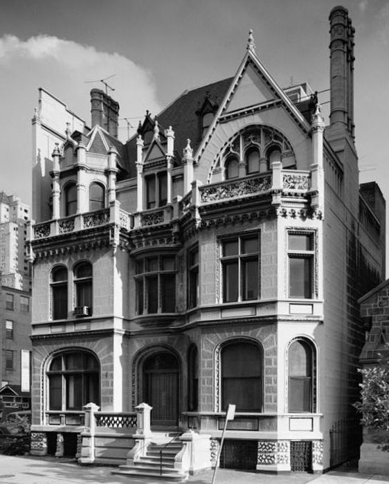 James Scott-John Wanamaker townhouse, 2032 Walnut Street, Philadelphia, Pennsylvania (1883, burned 1978, demolished 1981, only facade survives), Theophilus Parsons Chandler, Jr., architect.